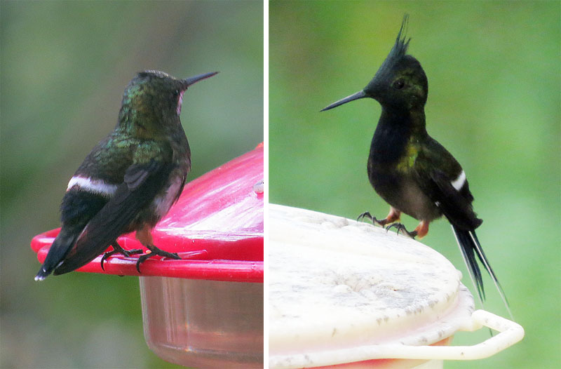 It's known as the Wire-crested Thorntail, and may be found in the eastern Andes of Ecuador and Peru. Wildsumaco Lodge, Ecuador. Male on right. In context at